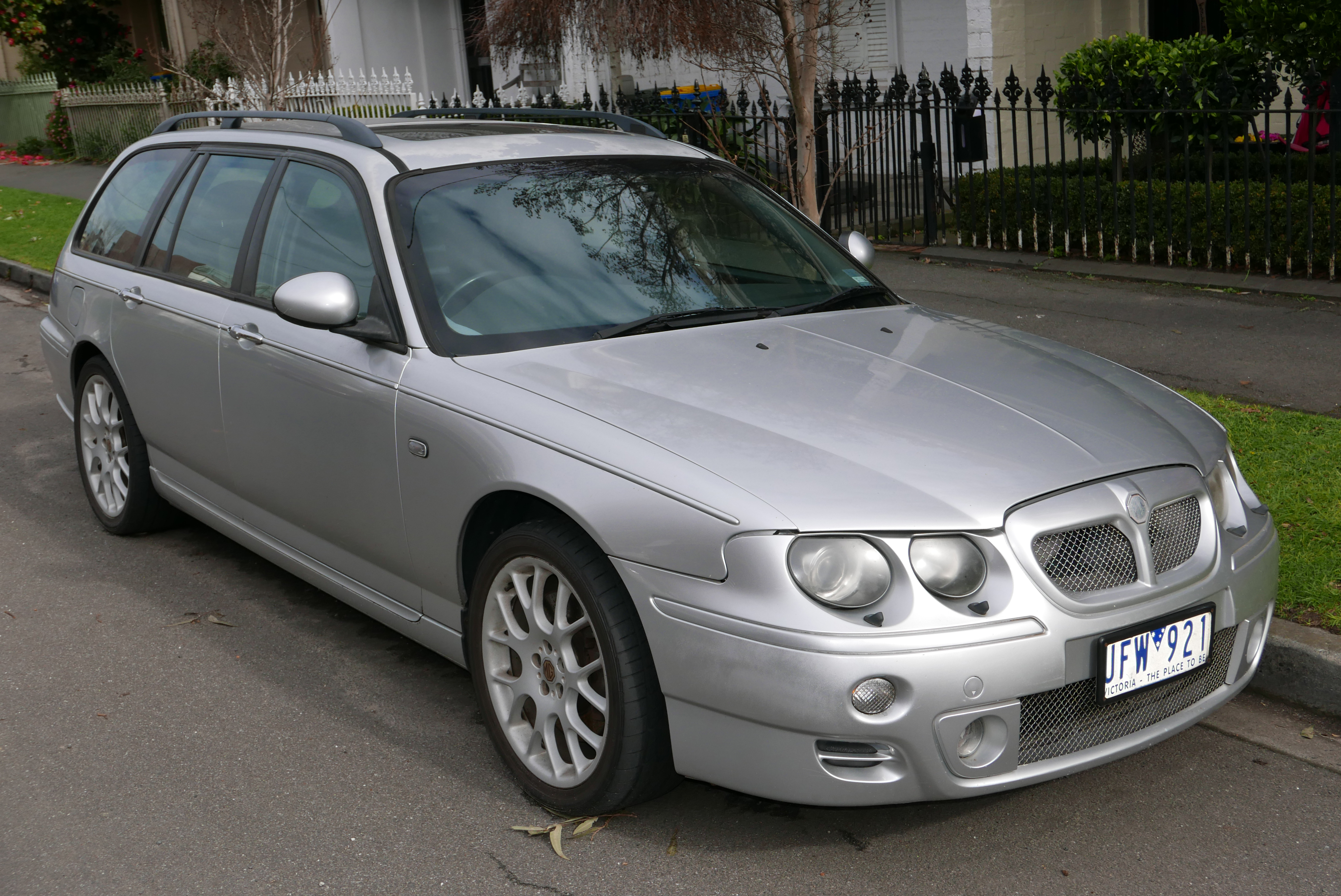 2003 MG ZT-T+ 190 station wagon. Photographed in Hawthorn, Victoria, Australia. Vehicle registration enquiry resultsJurisdictionVictoriaRegistrationUFW921Chassis codeSARRJXTFF3D261291Engine code25K4FN31222674Compliance date2003-06Year of manufacture2003